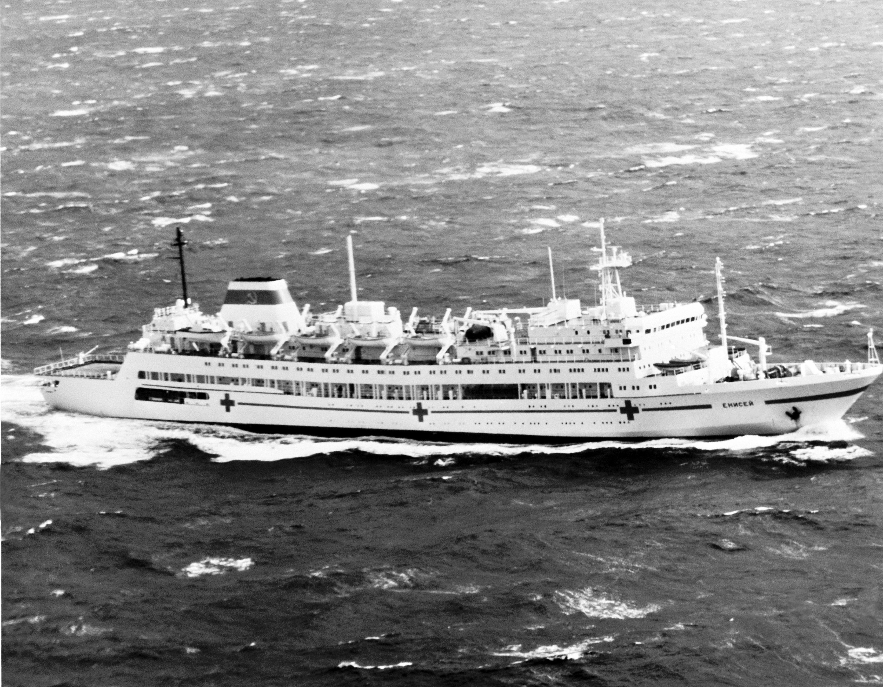 A starboard view of the Soviet navy Ob class hospital ship Yenisey underway.